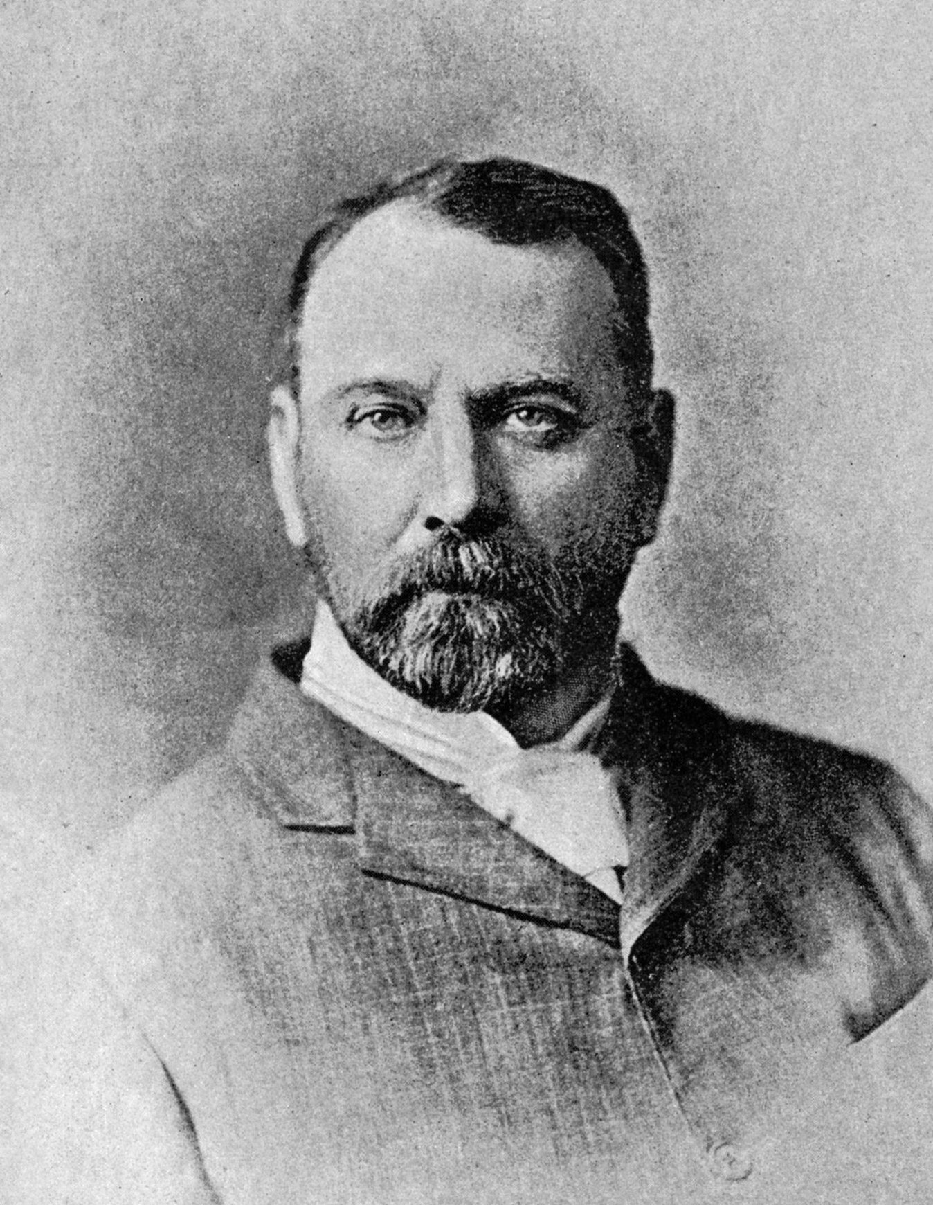 Mr. Sydney Grundy, Author of "An Old Jew.".